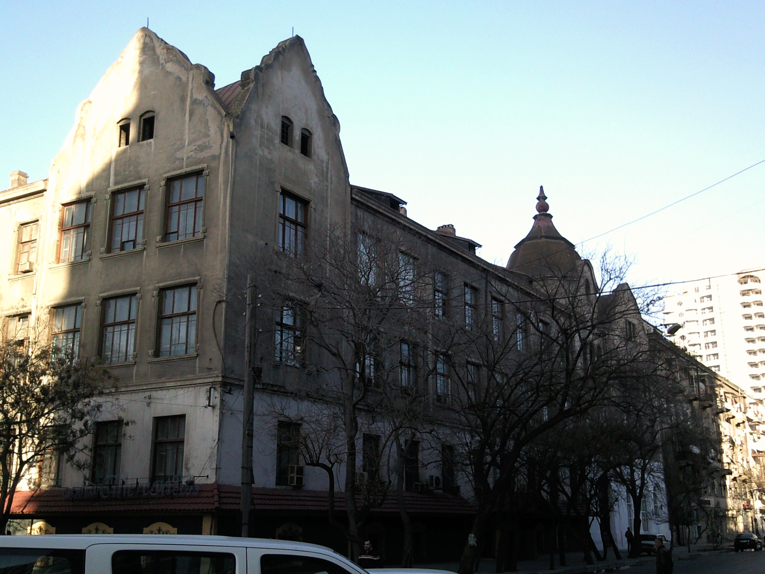 Nizami street 117 in Baku.